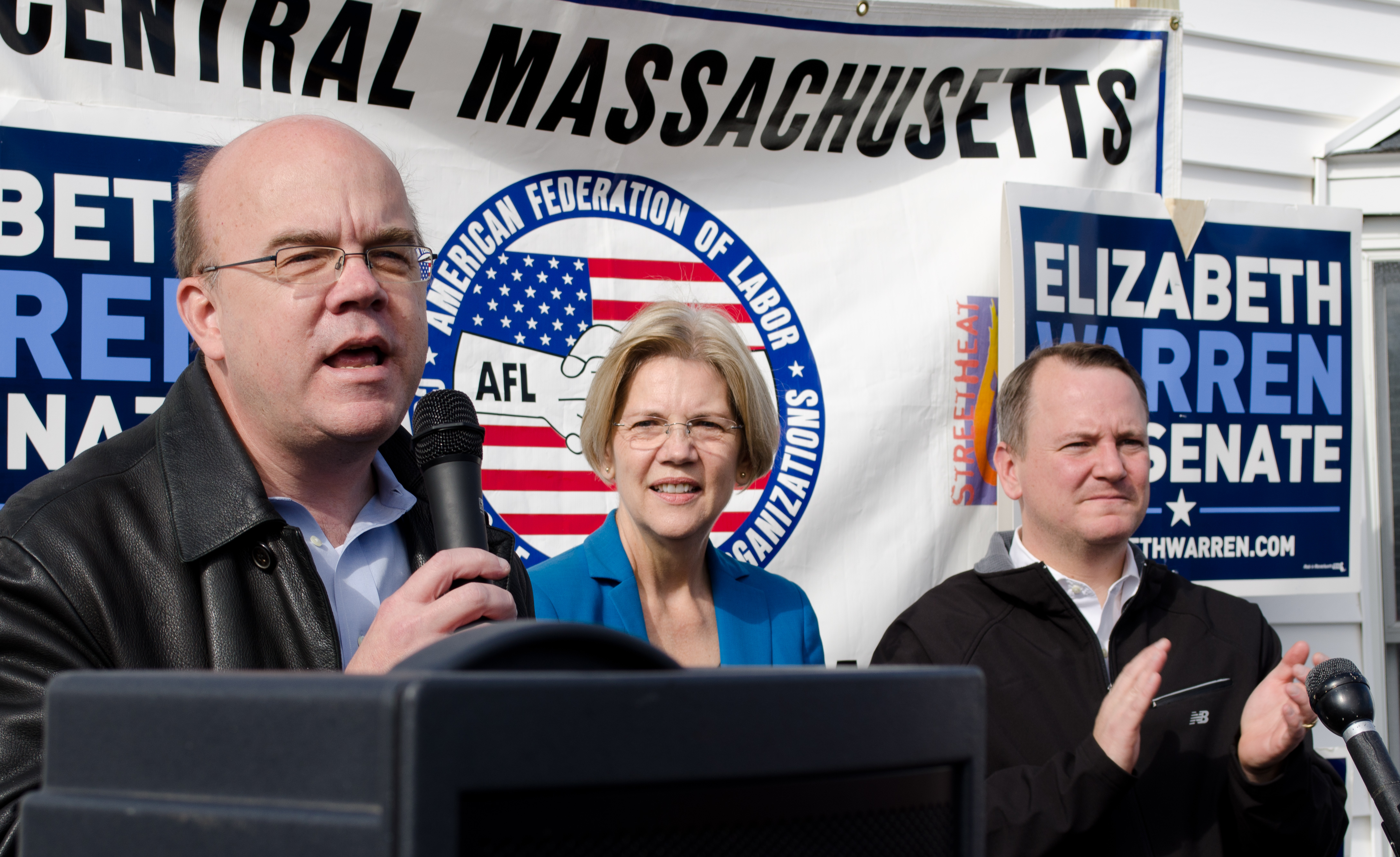 (l-r) Rep. Jim McGovern, Elizabeth Warren and Massachusetts Lieutenant Governor Tim Murray at a Warren campaign rally in Auburn, Massachusetts, Nov 2, 2012.